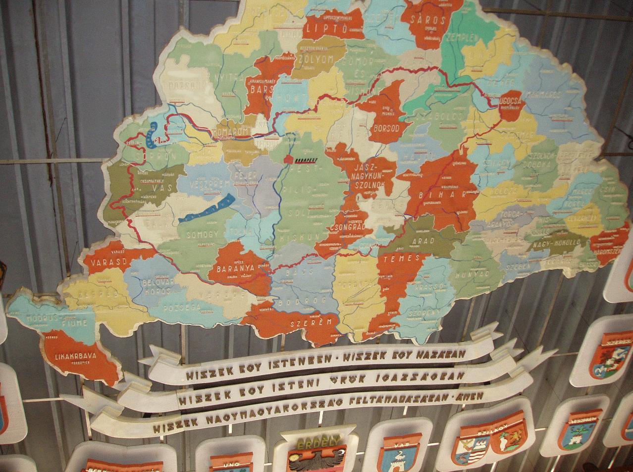 Hungarian Cultural Hosue in Caracas, Venezuela. Map of the Great Hungary